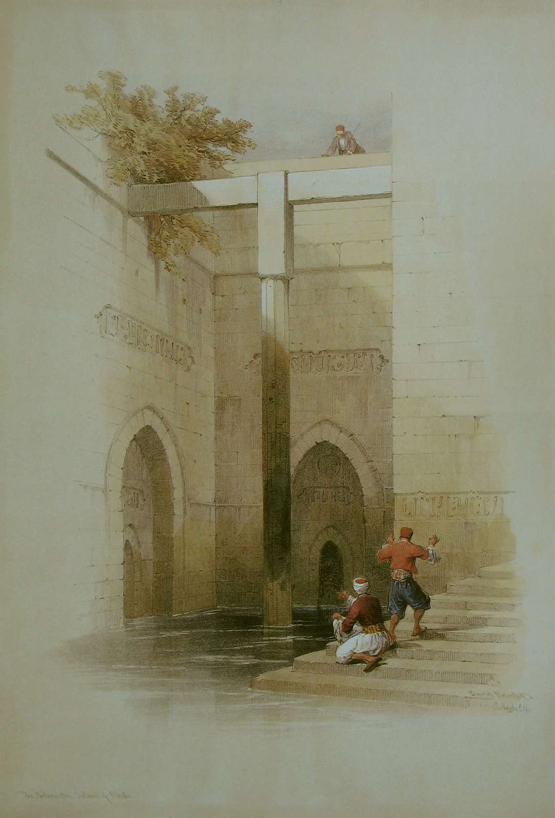 The nilometer on the Isle of Rhoda, Cairo